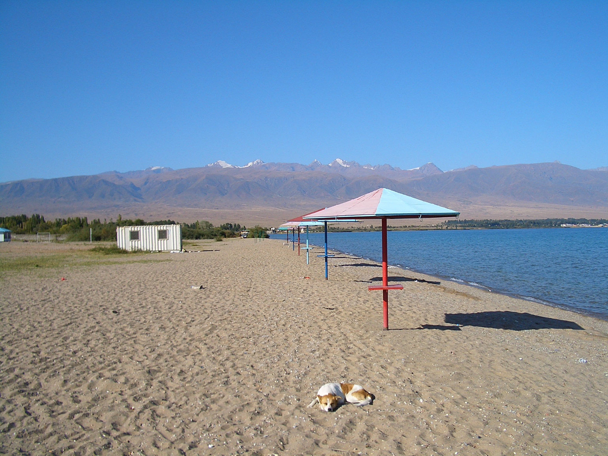 Beach on Lake Issyk Kul, with metal beach umbrellas at a Soviet-era resort at Koshkol, Kyrgyzstan. The picture is taken in mid-September, after the tourists are mostly gone. The snow-capped peaks of the Kyungei Alatoo range (north of Lake Issyk Kul) are seen in the background.